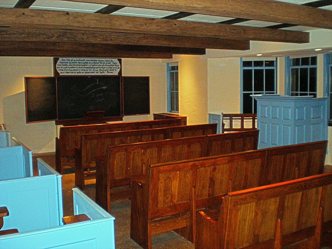 Welsh Nationality Room in the Cathedral of Learning at the University of Pittsburgh